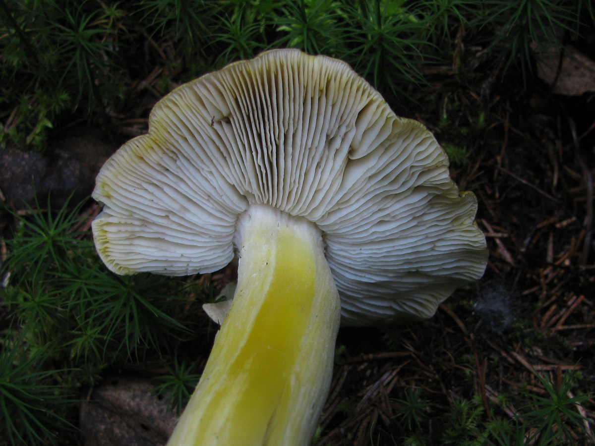 Tricholoma viridilutescens M.M. Moser Image location: Zavidovo, Tver Oblast, Russia in Europe, is 1. sejunctum with Quercus and Fagus on calcareous soil, a rare and threatened species 2. arvernense, on sandy soil with Pinus They look pretty much the same. Check out other obses at MO and pictures on the web of arvernense too. And then there is one with a darker green cap that grows with spruce, which I call viridilutescens. T. sejunctum and arvernense are separated in Flora Agaricina Neerlandica, but they add to more confusion with other names. Making viridilutescens a synonym of sejunctum results in a taxon without a name… But all these names are a mess, I don’t think the last word has been said yet. Recognized by sight: greenish cap with black stripes (like in portentosum), growing with spruce For more information about this, see the observation page at Mushroom Observer.